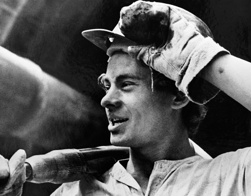 “Concreter”. A concreter from the Komsomol brigade.